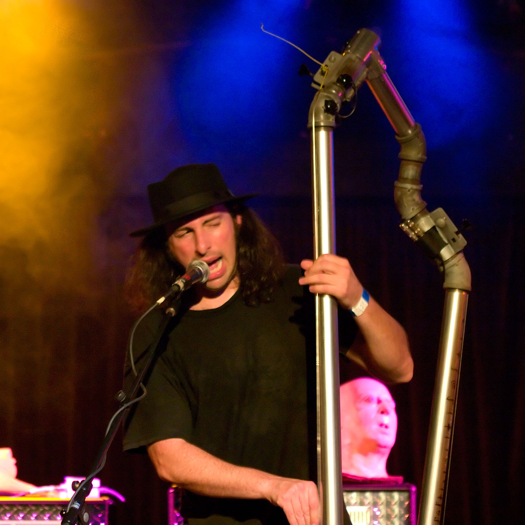 That 1 Guy (performing with Buckethead) at the Belly Up, 2006-04-23.